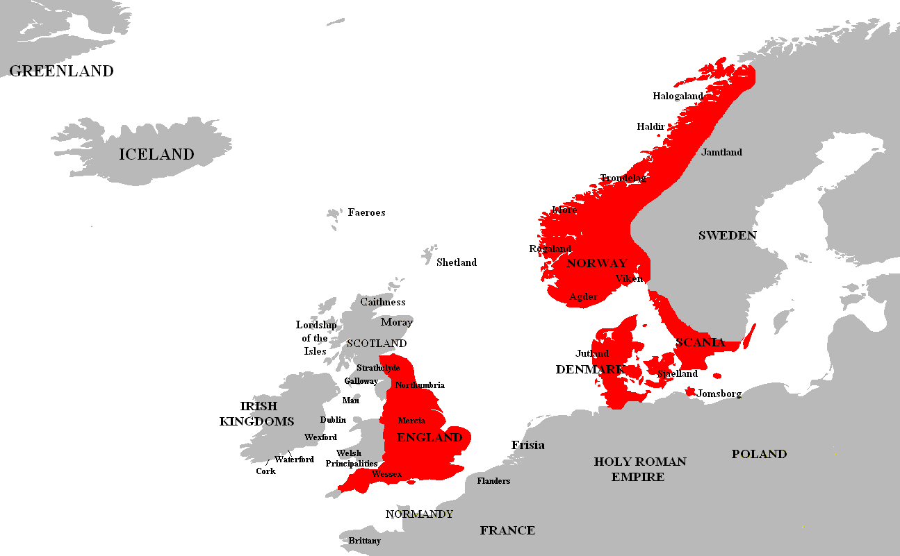 Cnut the Great's domains, c. 1028, in red.